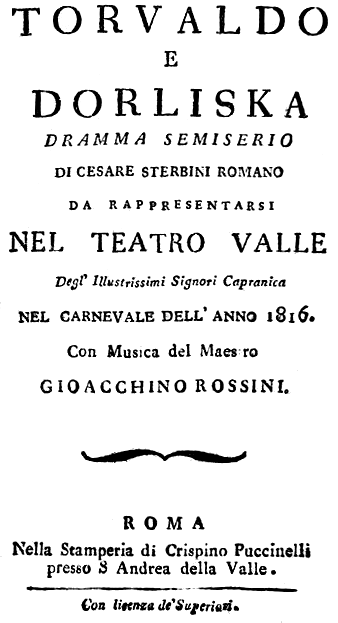 Gioachino Rossini - Torvaldo e Dorliska - titlepage of the libretto - Rome 1816